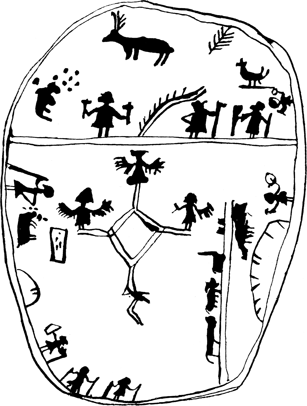 Sami drum from Rødøy in Nordland, Norway. Described and depicted by Johan Randulf in his manuscript Nærøymanuskriptet (1723) as owned by Thomas von Westen; later mentioned in Ernst Manker's Die lappische Zaubertrommel (1938) pages 44-46. Drum lost, probably in the 1793 Copenhagen fire.